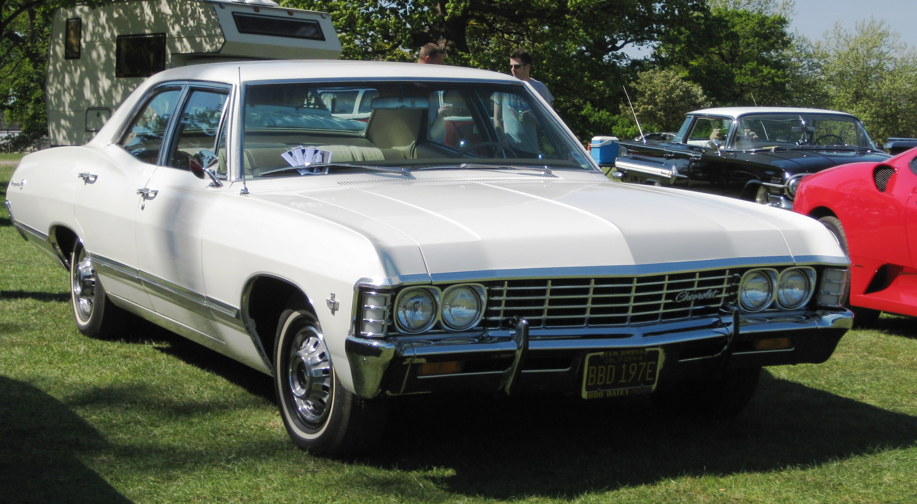 Chevrolet Impala sedan 1967 in England